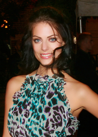 Julia Voth at the 2009 Toronto International Film Festival.